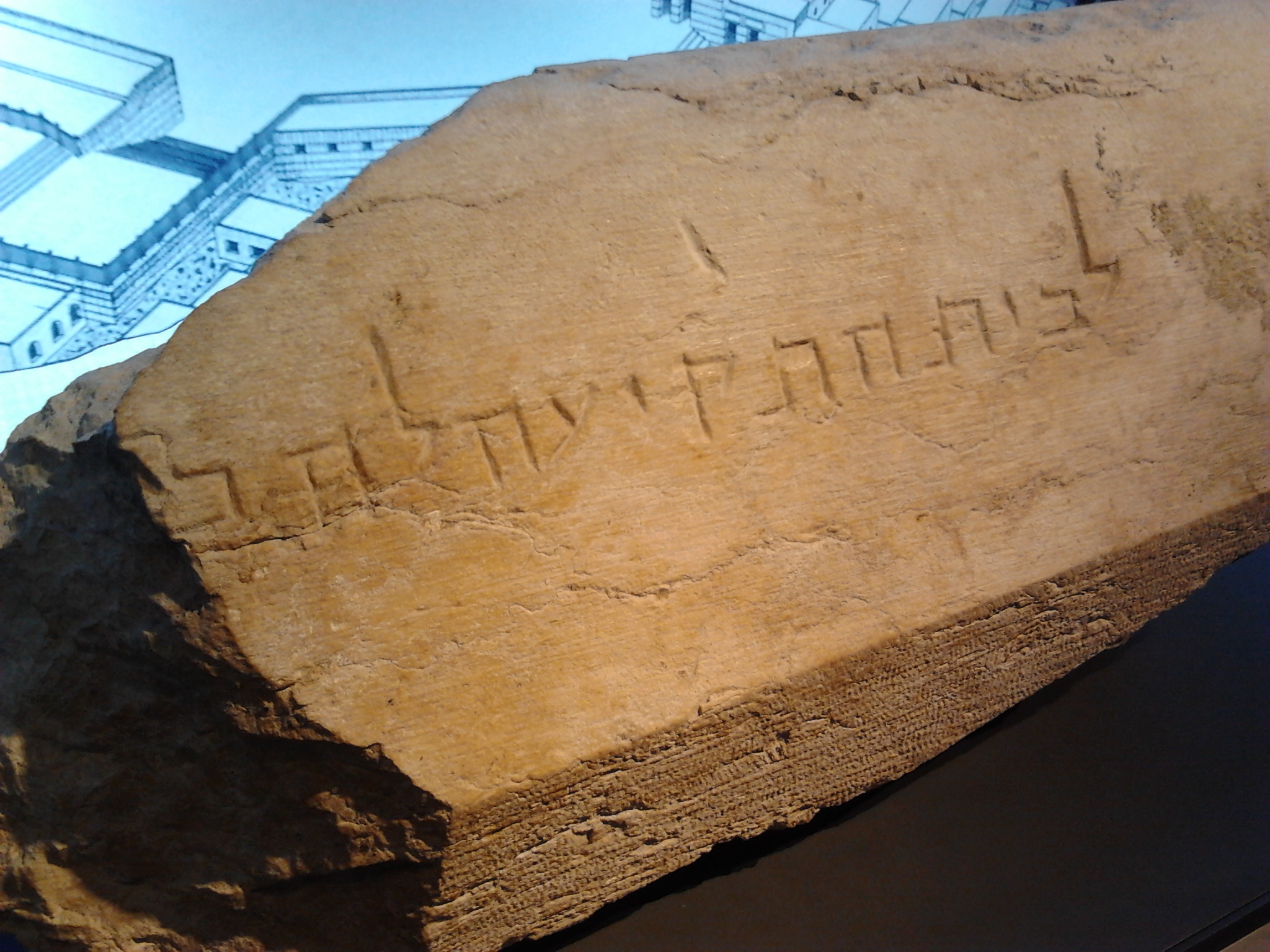 A closeup of the with Hebrew language inscription "To the Trumpeting Place"